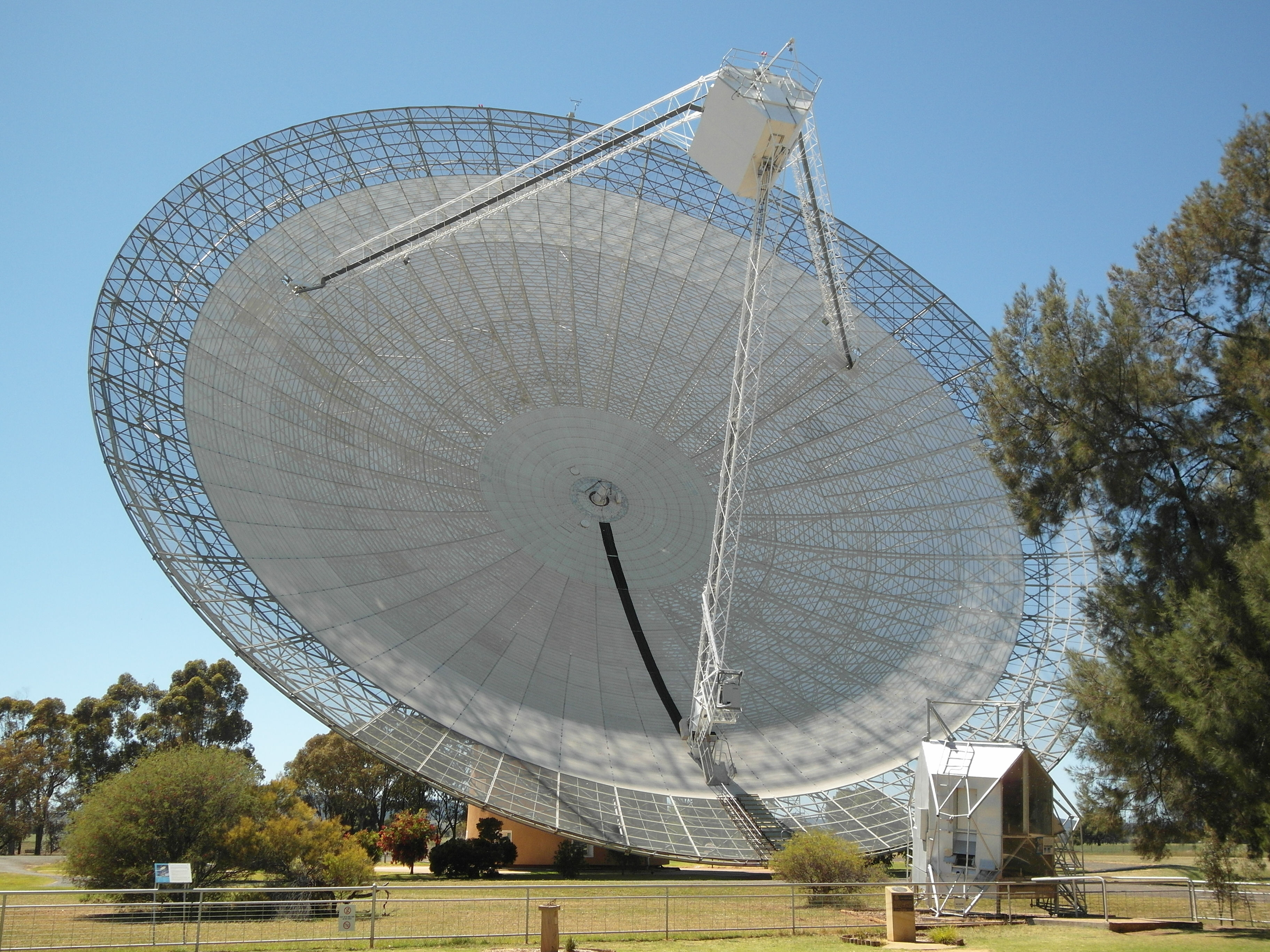 The Parkes 64m Radio Telescope "The Dish" at full extension to the ground.